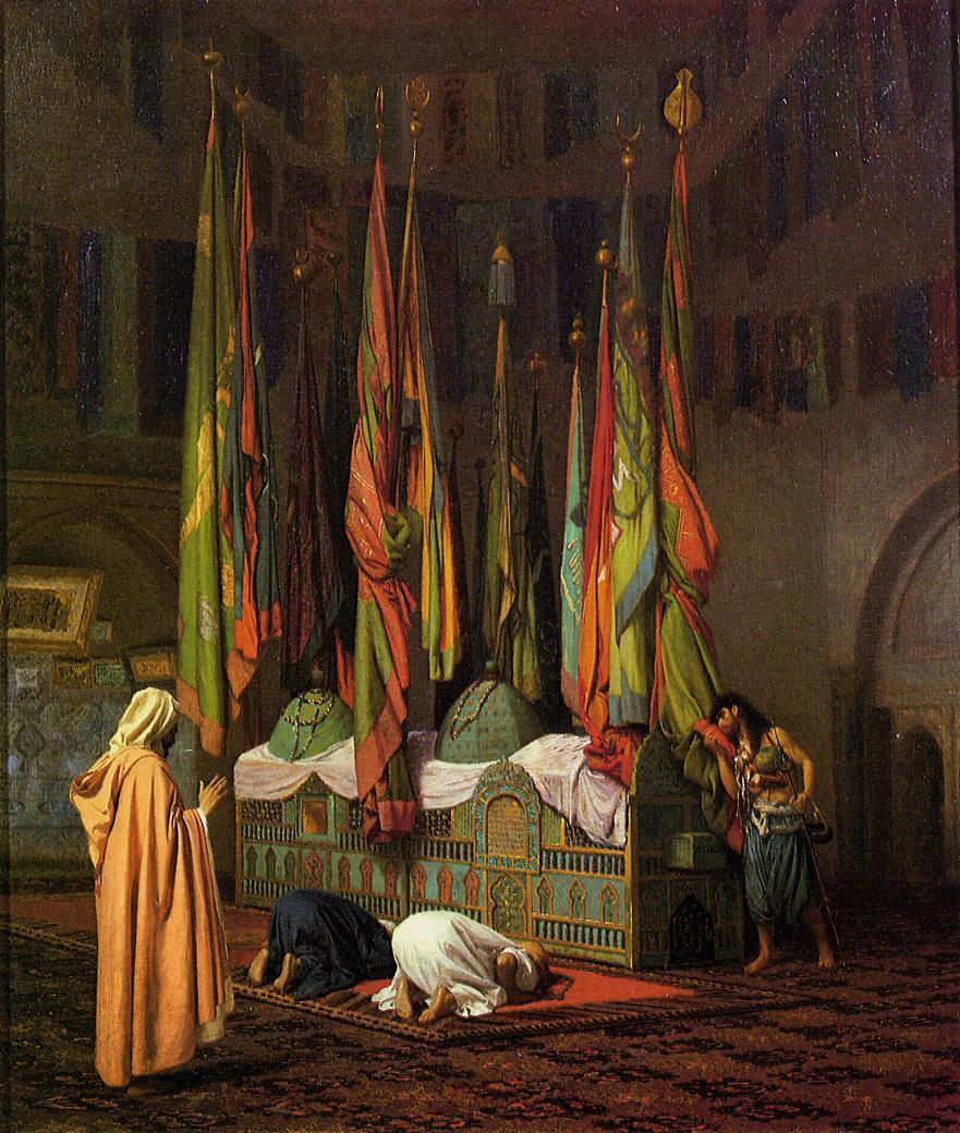 The Tomb of Hazrat Imam Hisain Allahis Salam